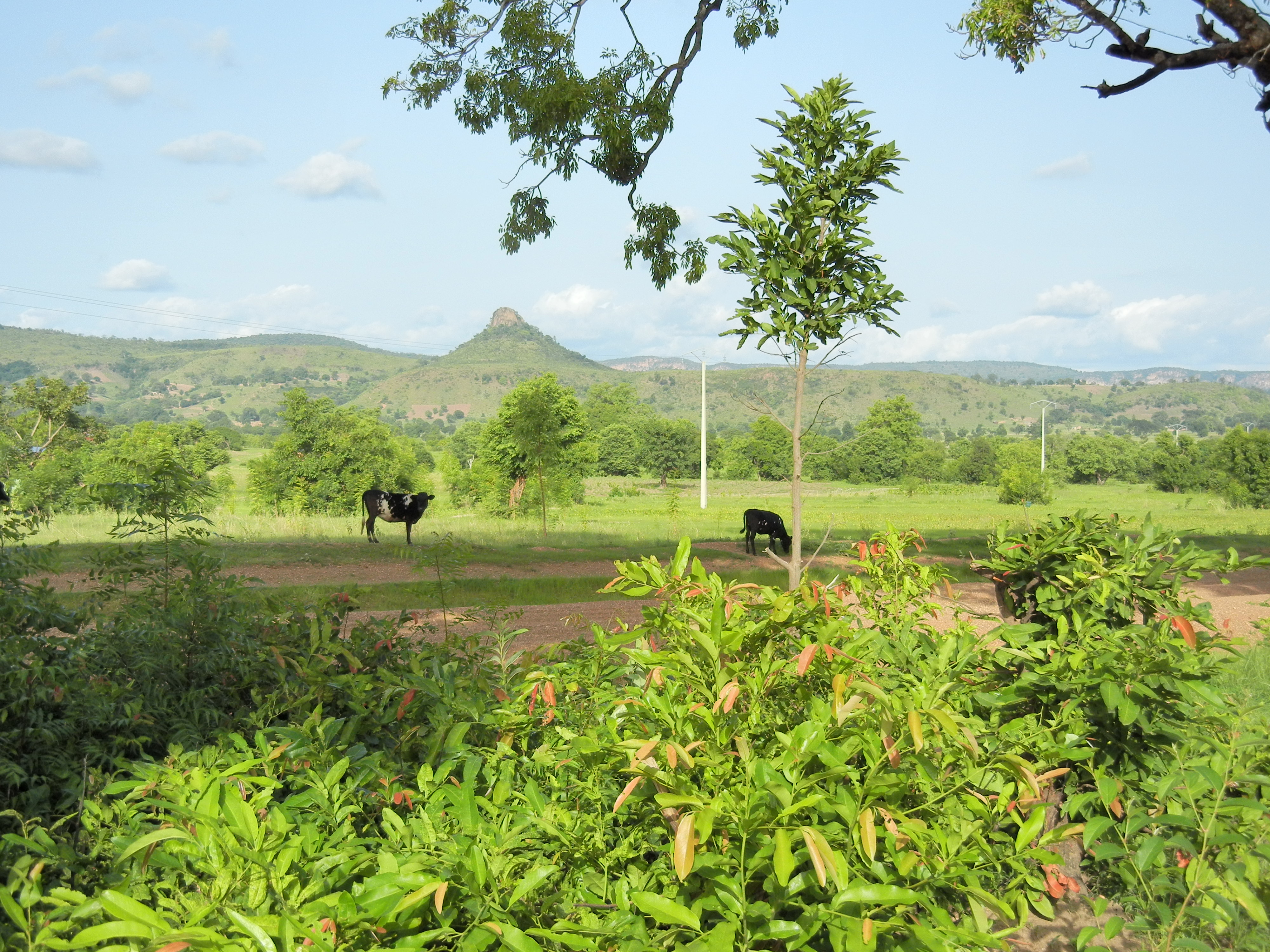 Distant view of the valley near a river of Boukoumbé in an inn in Natitingou. It is one of the geographical depressions of the city of Nanto in Benin